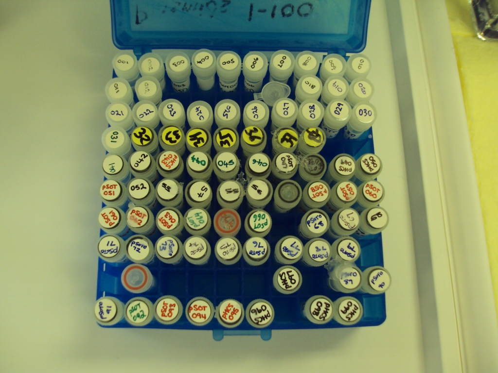 Plasmid Storage Box